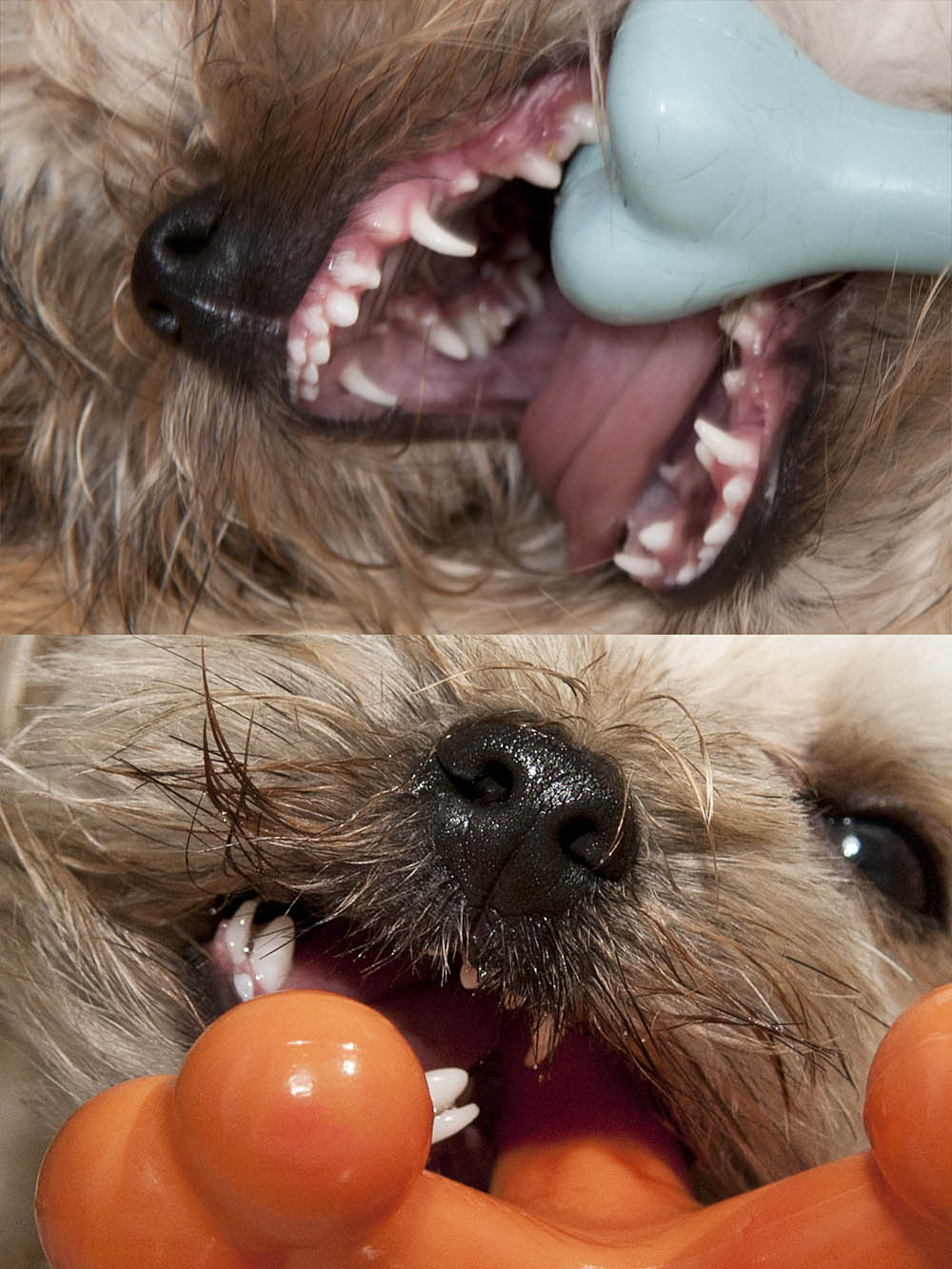 Morkie puppy Cairngorm McWomble the Terrible and his retained deciduous teeth and growing-in adult teeth